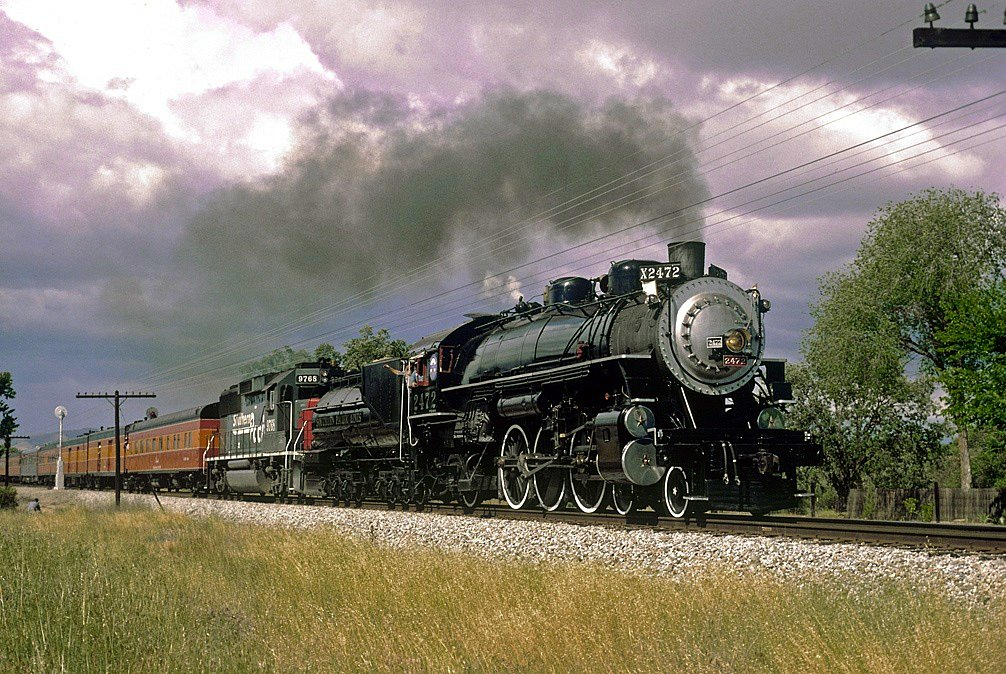 On the way to San Luis Obispo, May 7th, 1994 photo at North Paso Robles